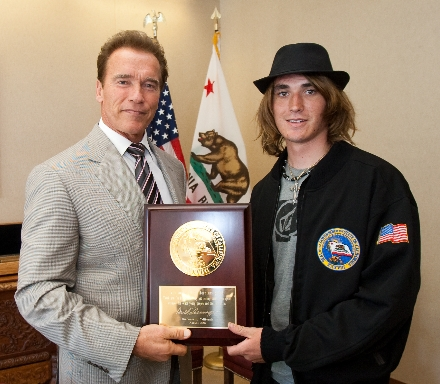 Governor Schwarzenegger presents solo sailor Zac Sunderland with an award.